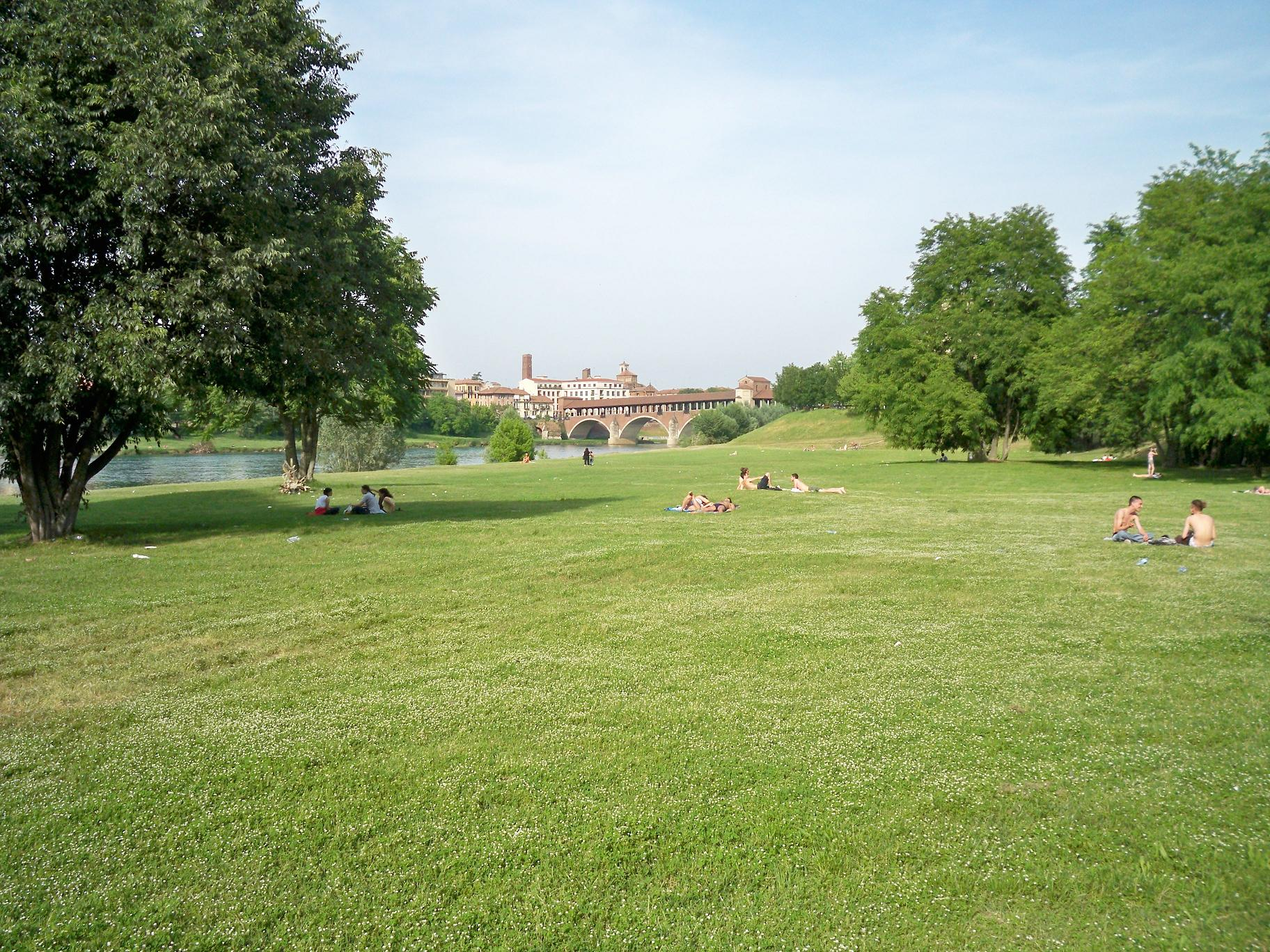 Area Vul Pavia